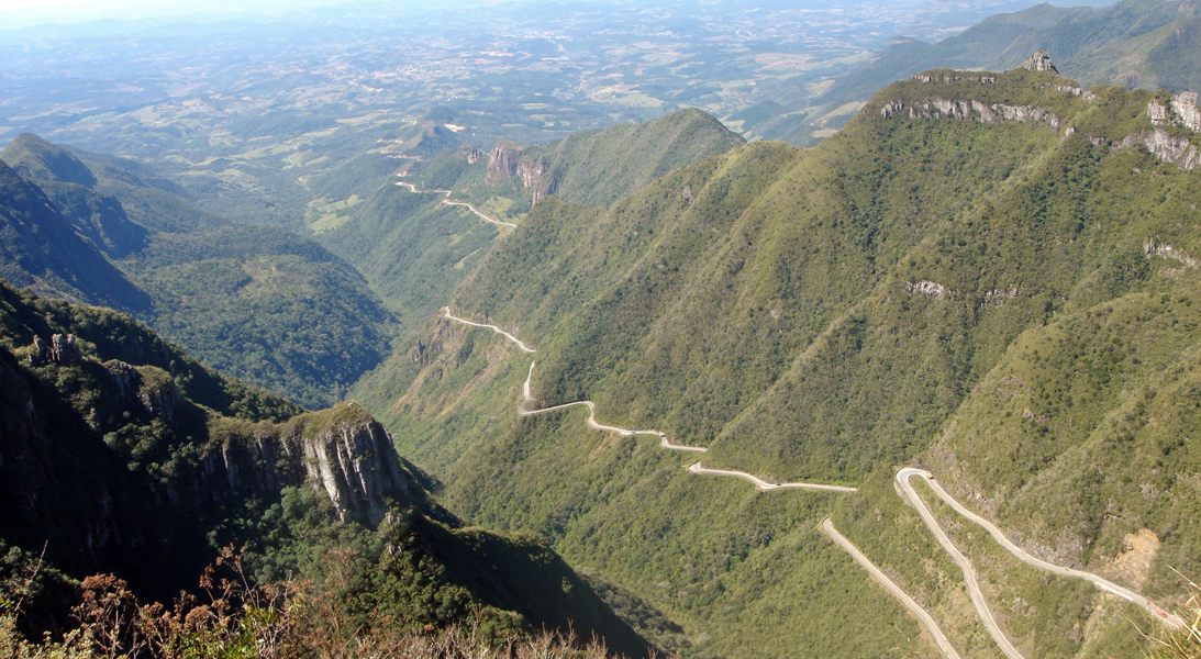 Panorama Serra do Rio do Rastro, Santa Catarina State, Brazil